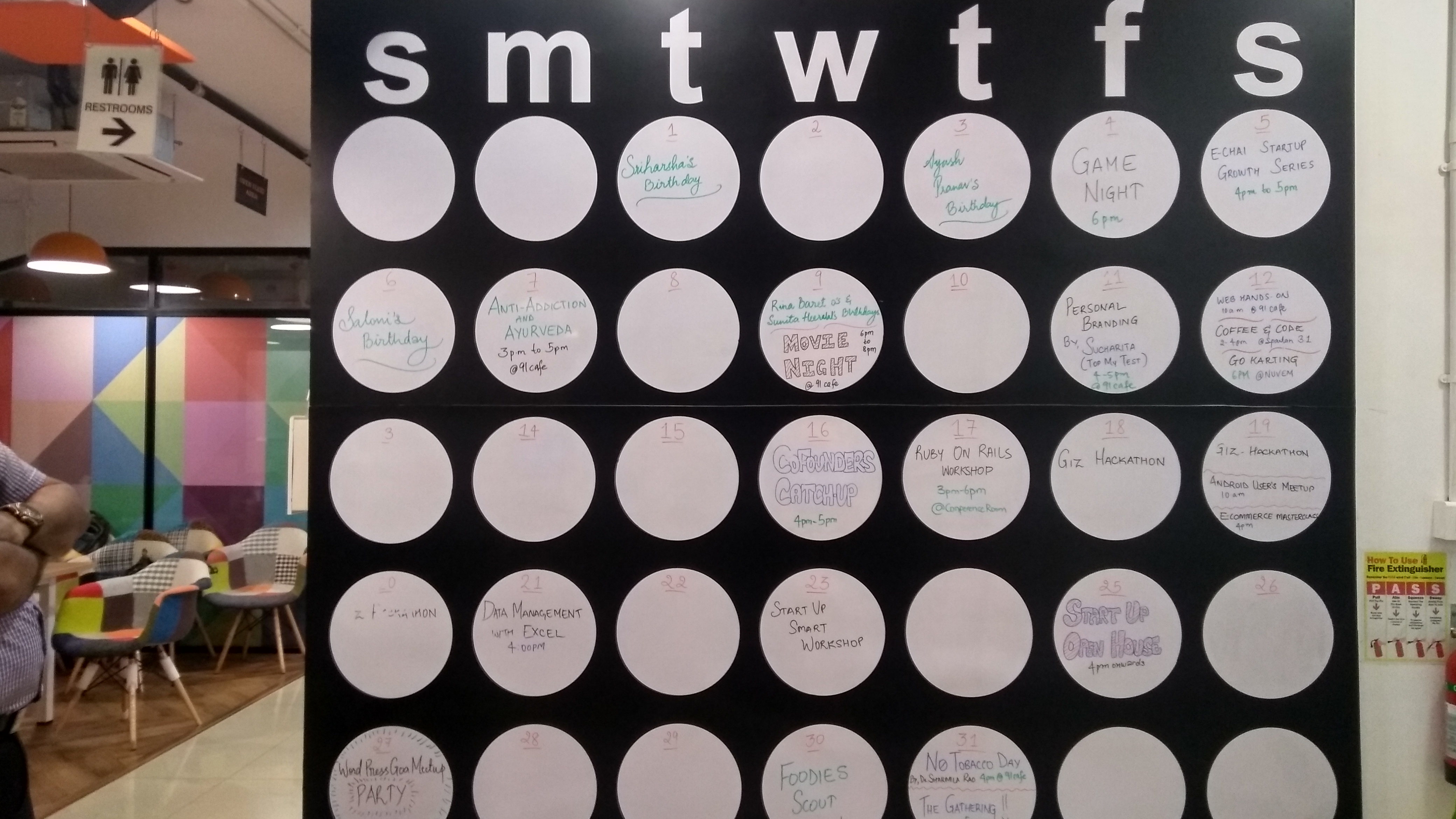 Upcoming events at the 91Springboard co-working location meant for startups in Panjim/Panaji, Goa. Photographed during a startup event in Goa, May 2018.